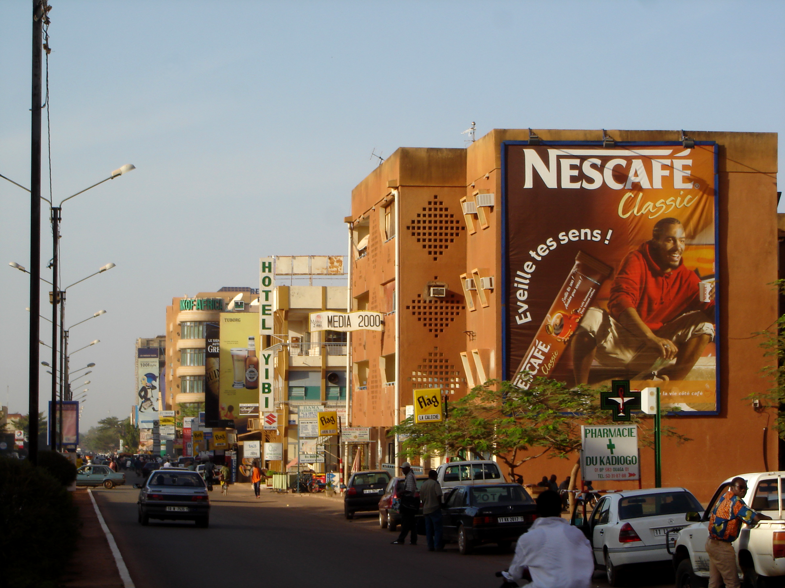 Burkina Faso: avenue Kwame-Nkrumah in Ouagadougou